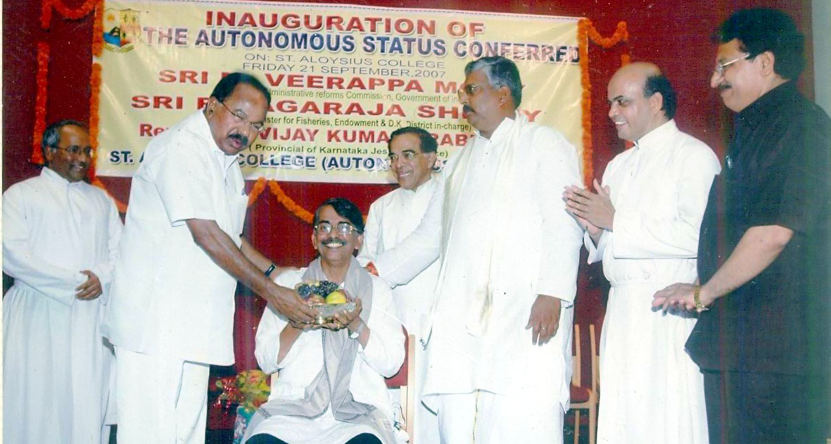 N D Shetty 4